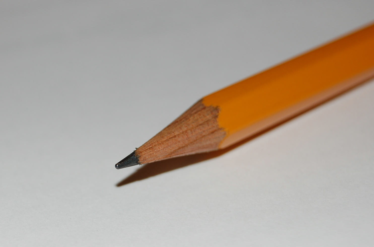 Pencil tip